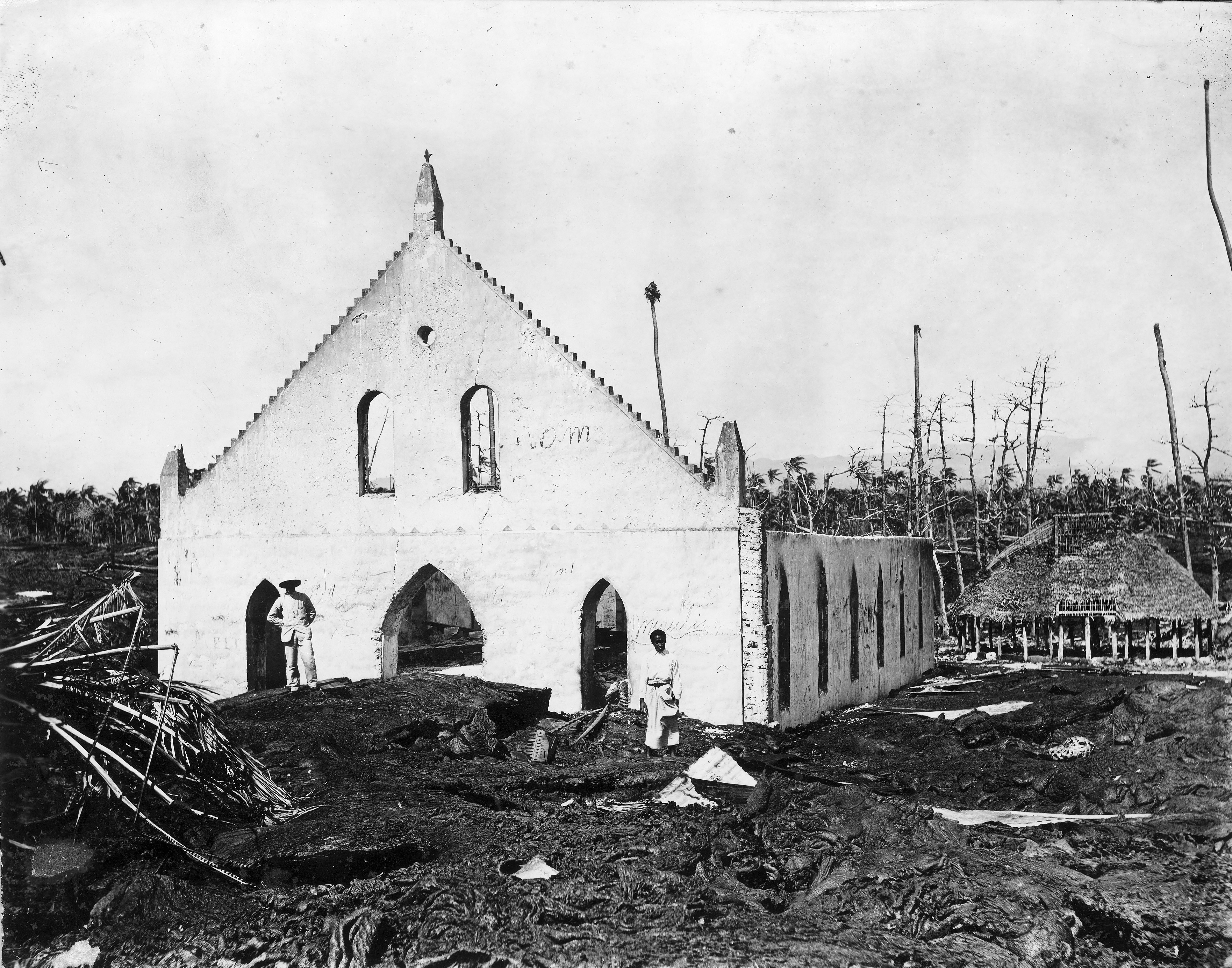 A church of the London Missionary Society in Samoa damaged by lava on the island of Savai'i, 1905. Gagana Samoa: Le falesa a le LMS ua leaga i le lava o le mauga mu i le tausaga 1905.